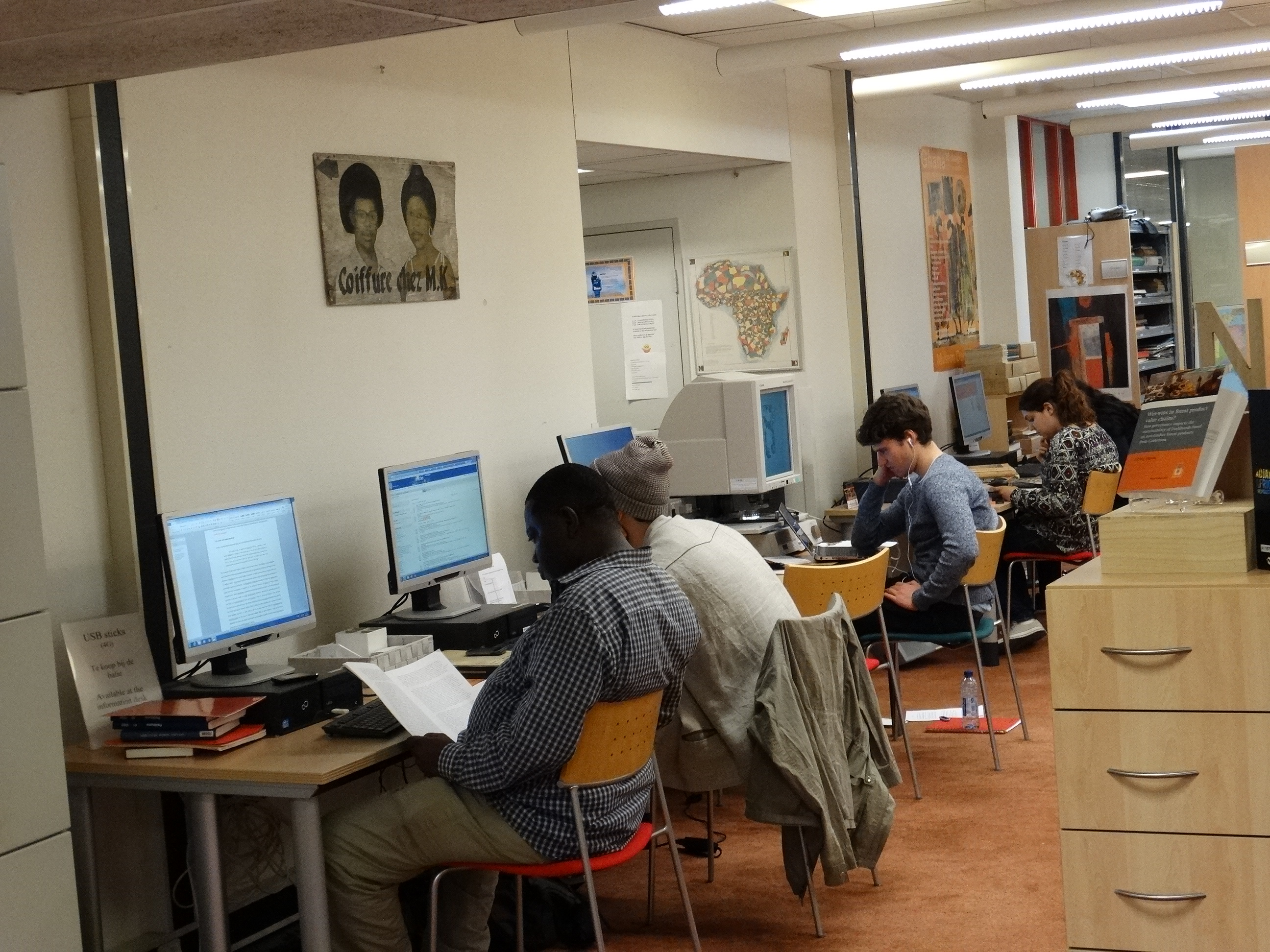 African Studies Centre, Leiden (The Netherlands)